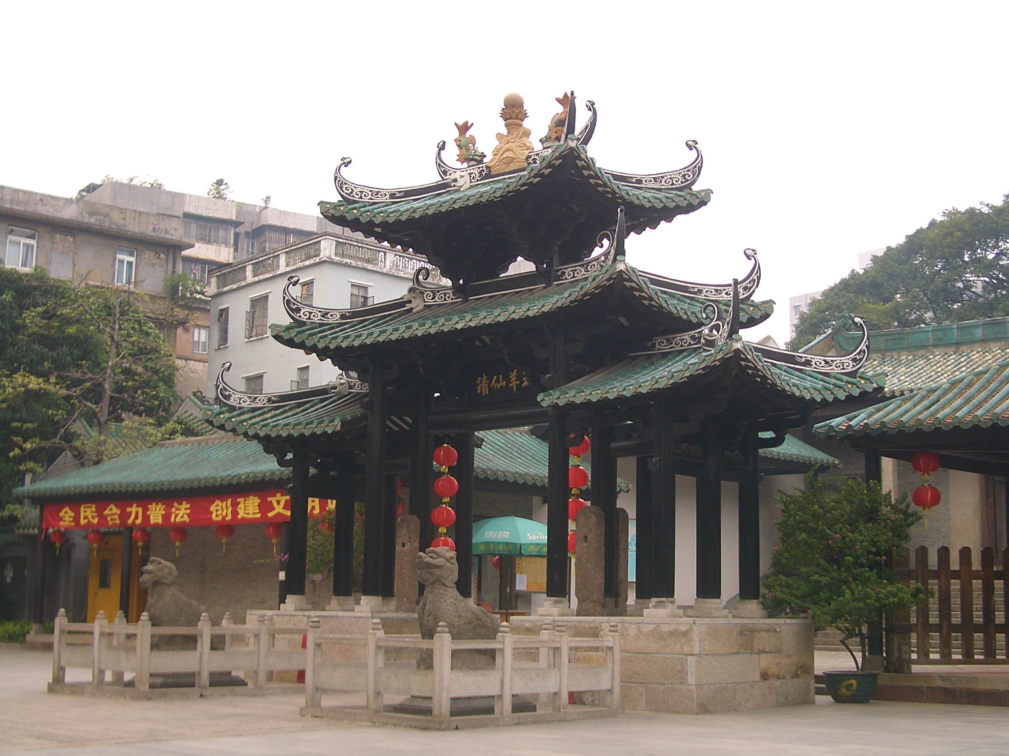 Temple of the Five Immortals (Wu Xian Guan) in Guangzhou. The front gate pavillion.